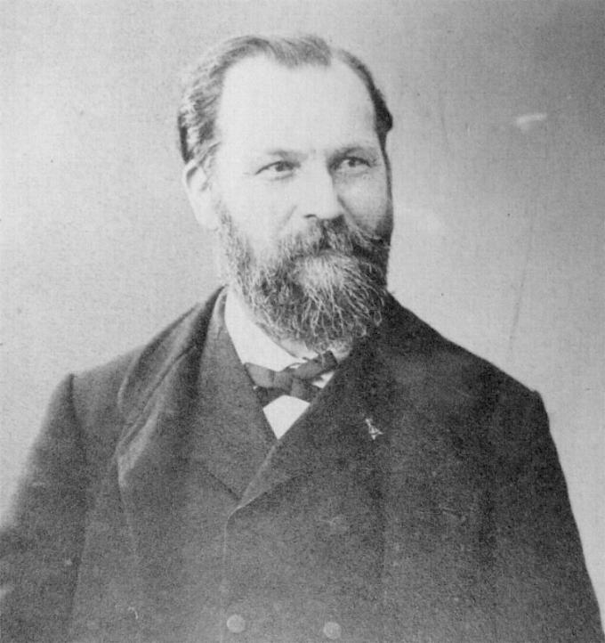 François Gustave Planchon, brother of Jules Emile Planchon who was a French botanist born in Ganges, Hérault